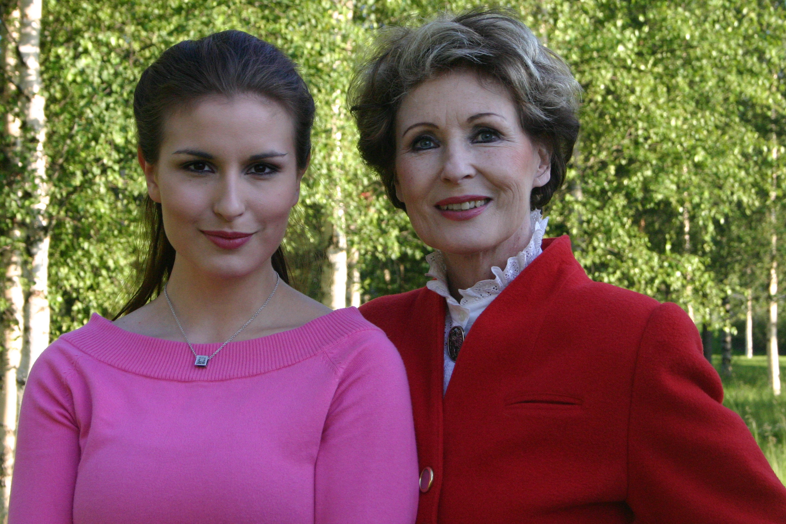 Maria and Tamara Lund in Vihreät Niityt music festival in the summer 2004.